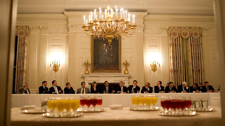 President Barack Obama meets with the Democratic Blue Dog coalition in the State Dining Room of the White House.